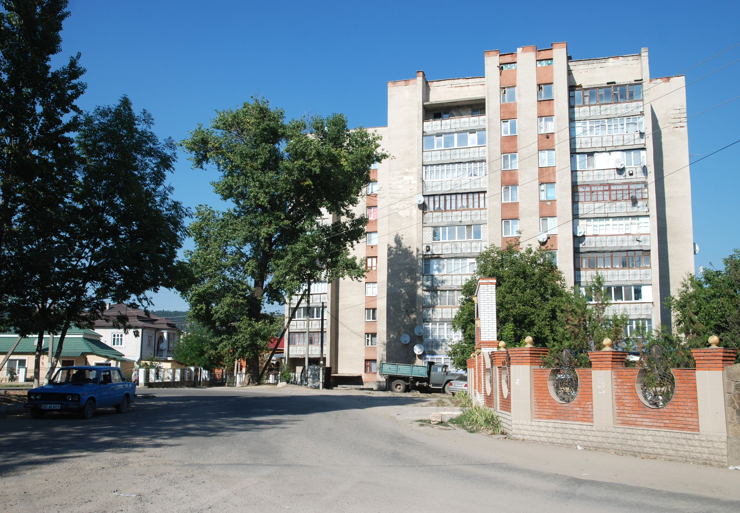 Otaci, town center